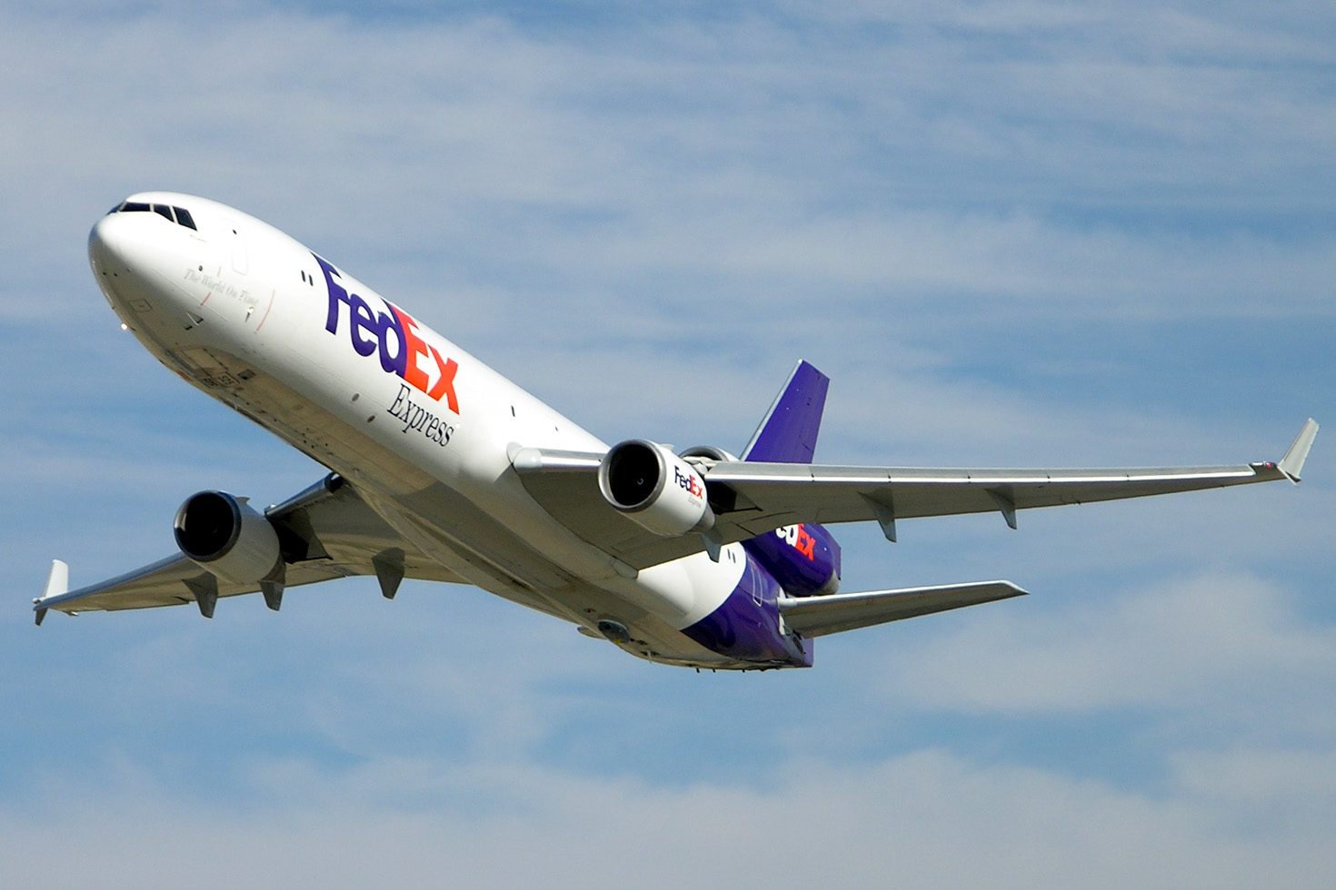 FedEx MD-11 N525FE during flight test of the Northrop Grumman Guardian counter-MANPADS system, at Mojave.